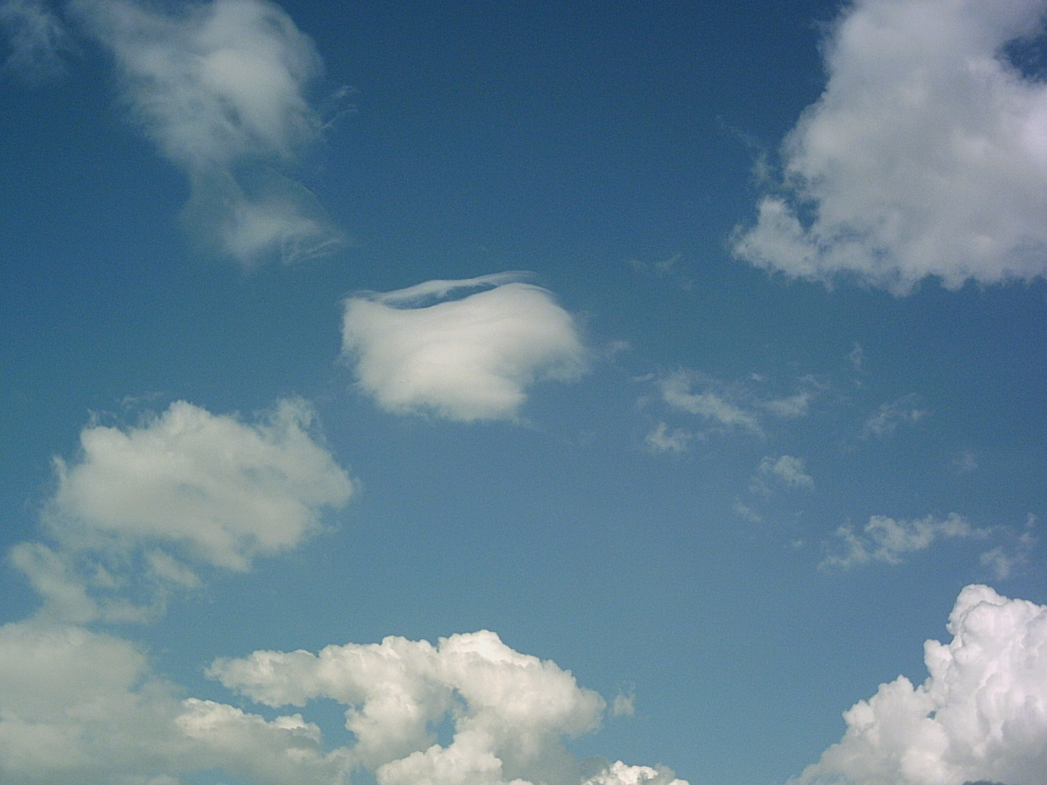 Many different cloud types in the sky above Sheung Shui, Hong Kong